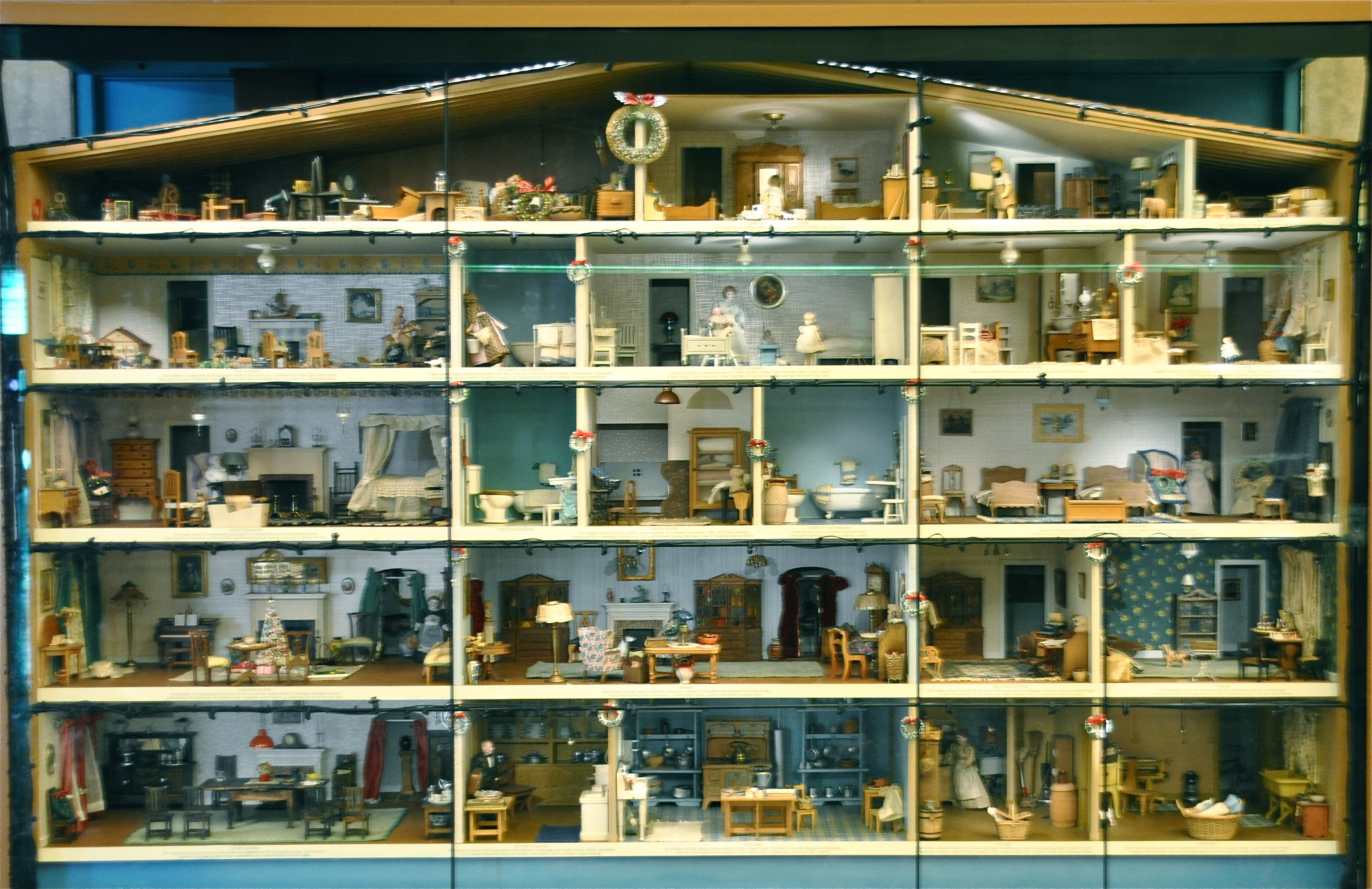 displayed at the National Museum of American History (Smithsonian Institution).